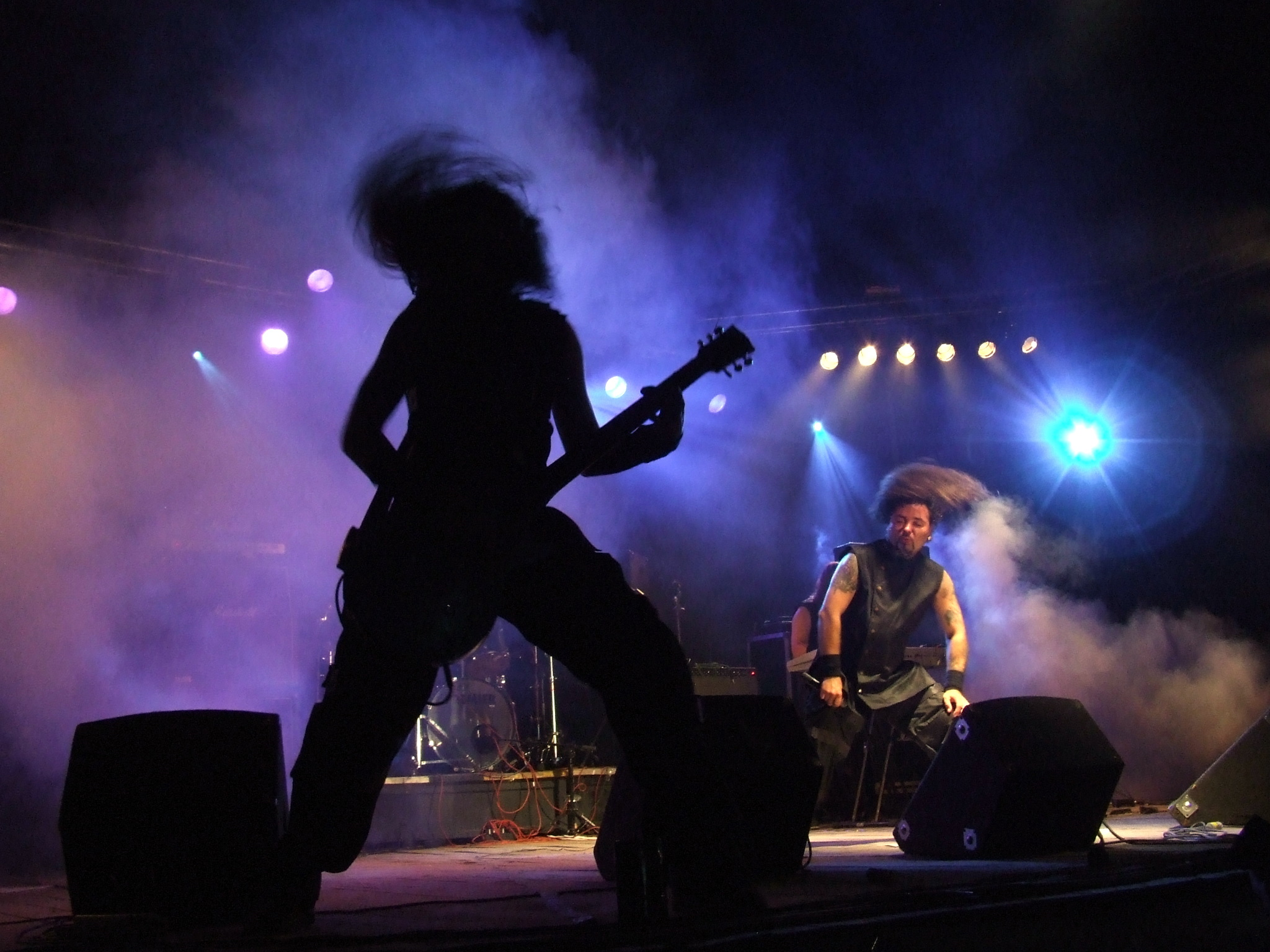 Rasta at Basowiszcza 2007.